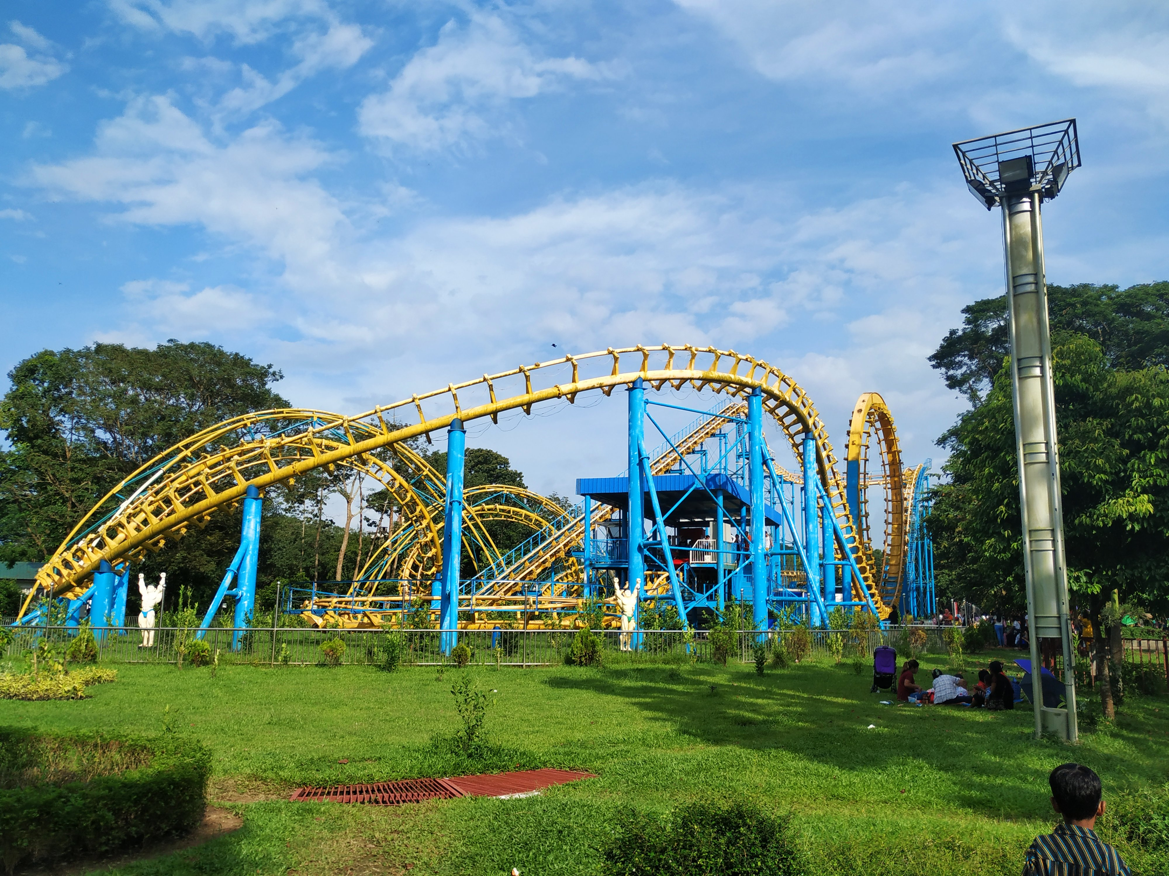 Roller-coaster in Yangon People's Park မြန်မာဘာသာ: ရန်ကုန် ပြည်သူ့ရင်ပြင်ရှိ ရိုလာကိုစတာ